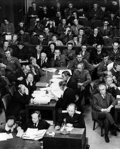 General R. A. Rudenko addressing the Tribunal on behalf of Soviet Russia at the Nuremberg War Crimes Trials